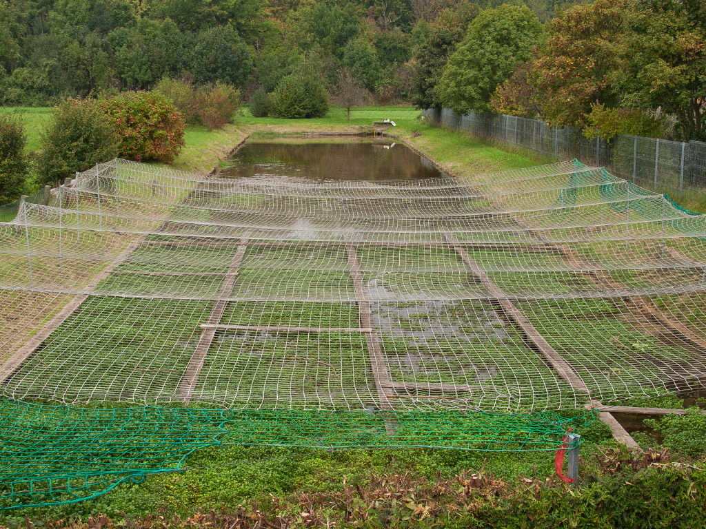 The traditional cultivation of watercress in Erfurt.